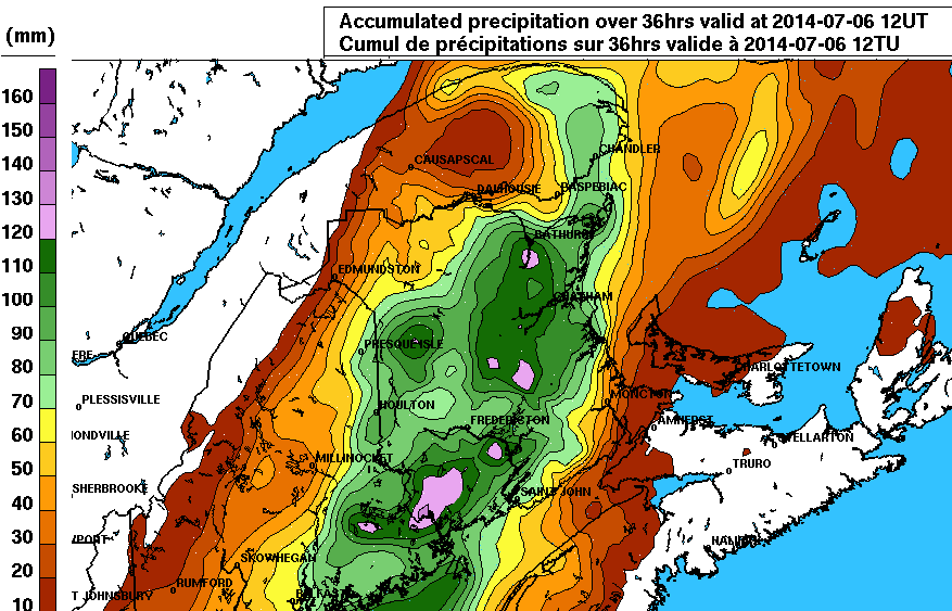 Total rain fall over Eastern Canada with the remnant of Hurricane Arthur (2014) using